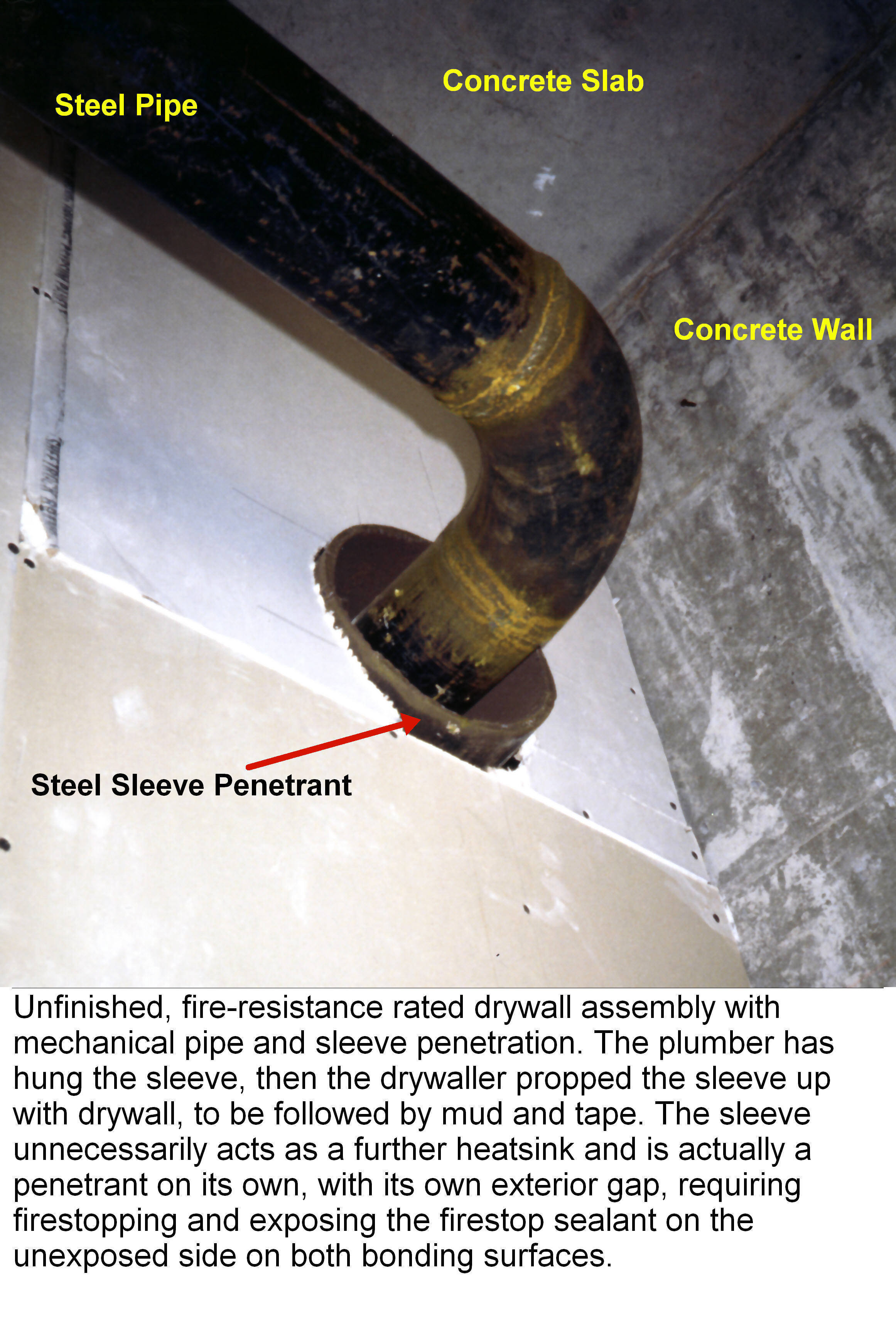 This is code violation waiting to happen. The drywall is required to have a fire-resistance rating. The plumber is there before the drywaller. He follows a firestop specification by the mechanical engineer and hangs a steel sleeve in place, thus creating a round hole for the pipe (penetrant) to traverse. This is utterly wrong. The sleeve is but another penetrant. In this case, it is also a considerable heatsink, which will carry more heat through to the unexposed side. To avoid the problem, a Section 07840 Firestop specification could have been used, to regulate the forming of openings to enable proper bounding, whereby one speciality firestop sub-contractor seals all through-penetrations and building joints in one sub-contract to the general contractor. As it is, this opening shown here is very difficult to fix, especially the tight spaces between the drywall and the sleeve itself.